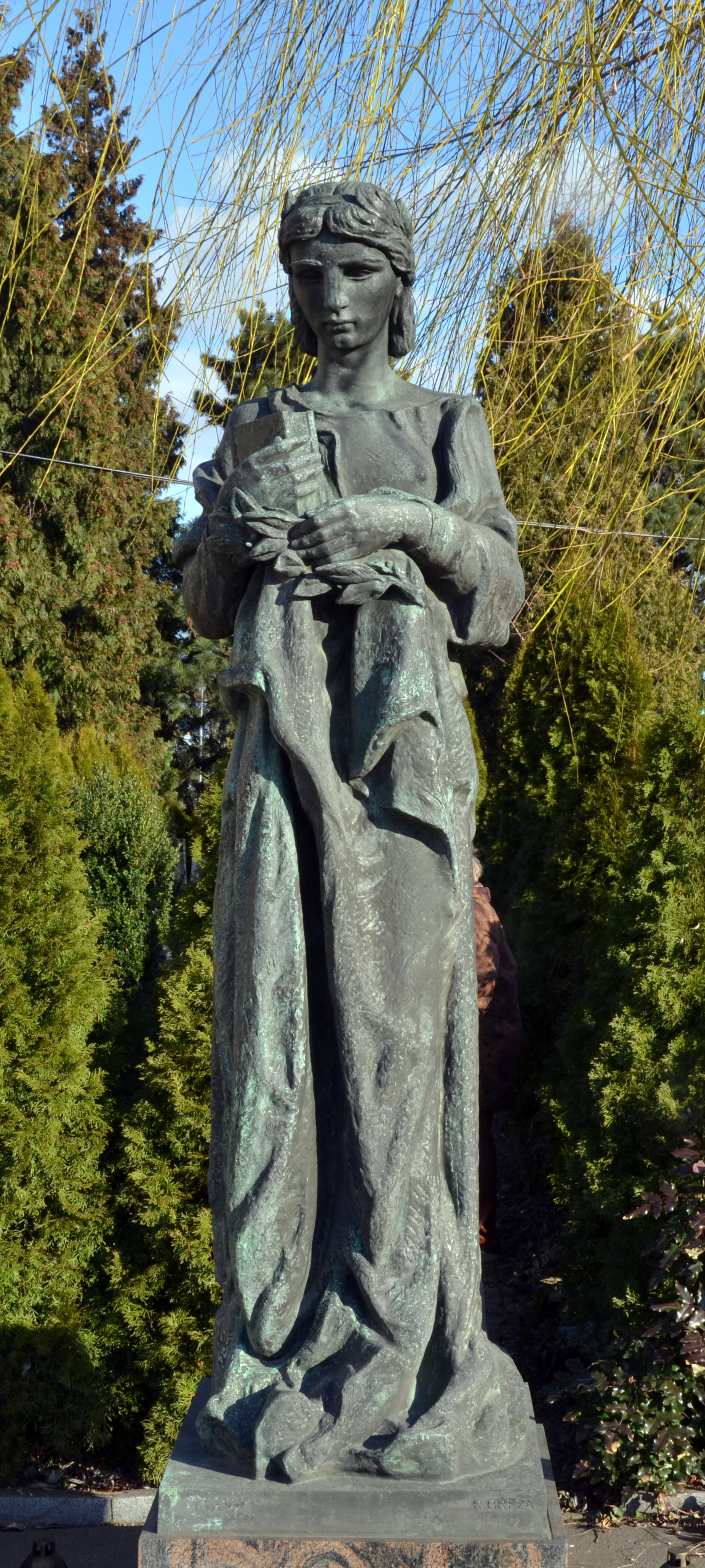 Rudolf Březa, Allegory of Literature